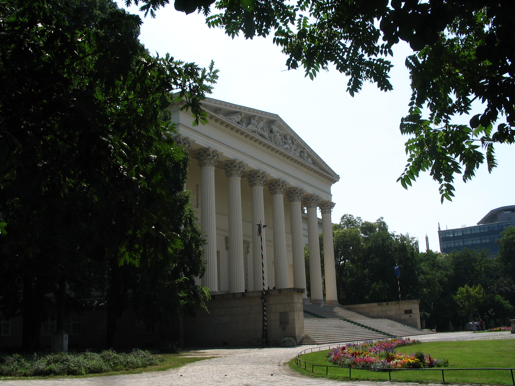 The Hungarian National Museum at the Múzeum körút part Own pic from 2005.